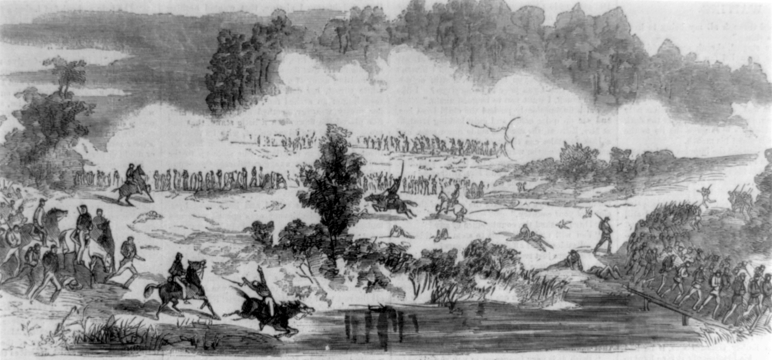 This image was published in Harper's Weekly, v. 6, (1862 September 13), p. 381. The caption on the page reads: "Skirmish at Freeman's Ford, August 27—Death of General Bohlen.—Sketched by Mr. Davenport—[See page 577.]"